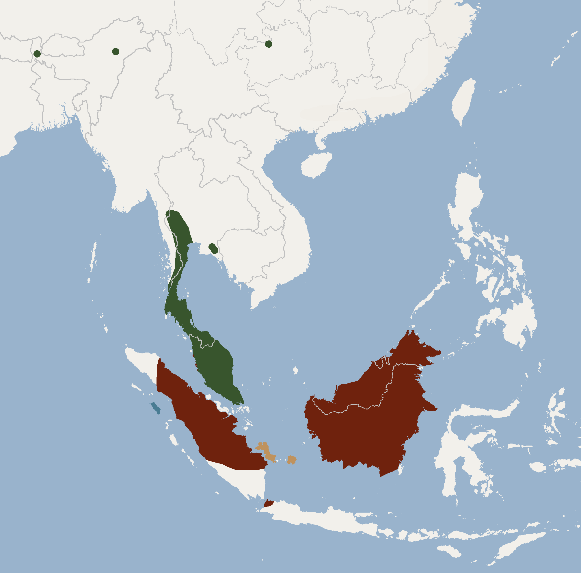 According to . Subspecific range in different colours. R.t.trifoliatus R.t.edax R.t.niasensis R.t.solitarius